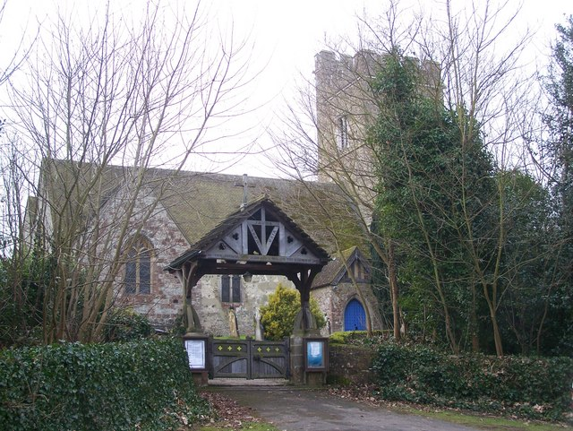 St Margaret of Antioch Church, Addington On separate access road from Park Road. There has always been a church in Addington since Saxon times. The present building dates from 1150 when a Norman church was erected to replace an earlier building. Dedication to St. Margaret of Antioch had taken place by early 15th Century.